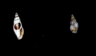 Mangelia costata (Pennant, 1777); family Mangeliidae